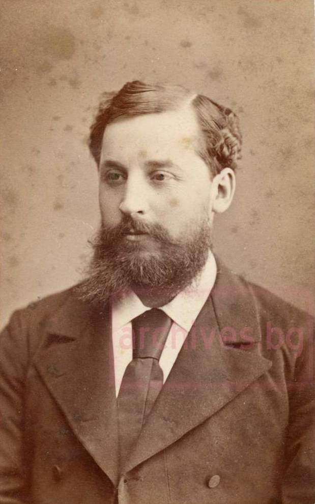 Georgi Kandilarov 5 May 1883